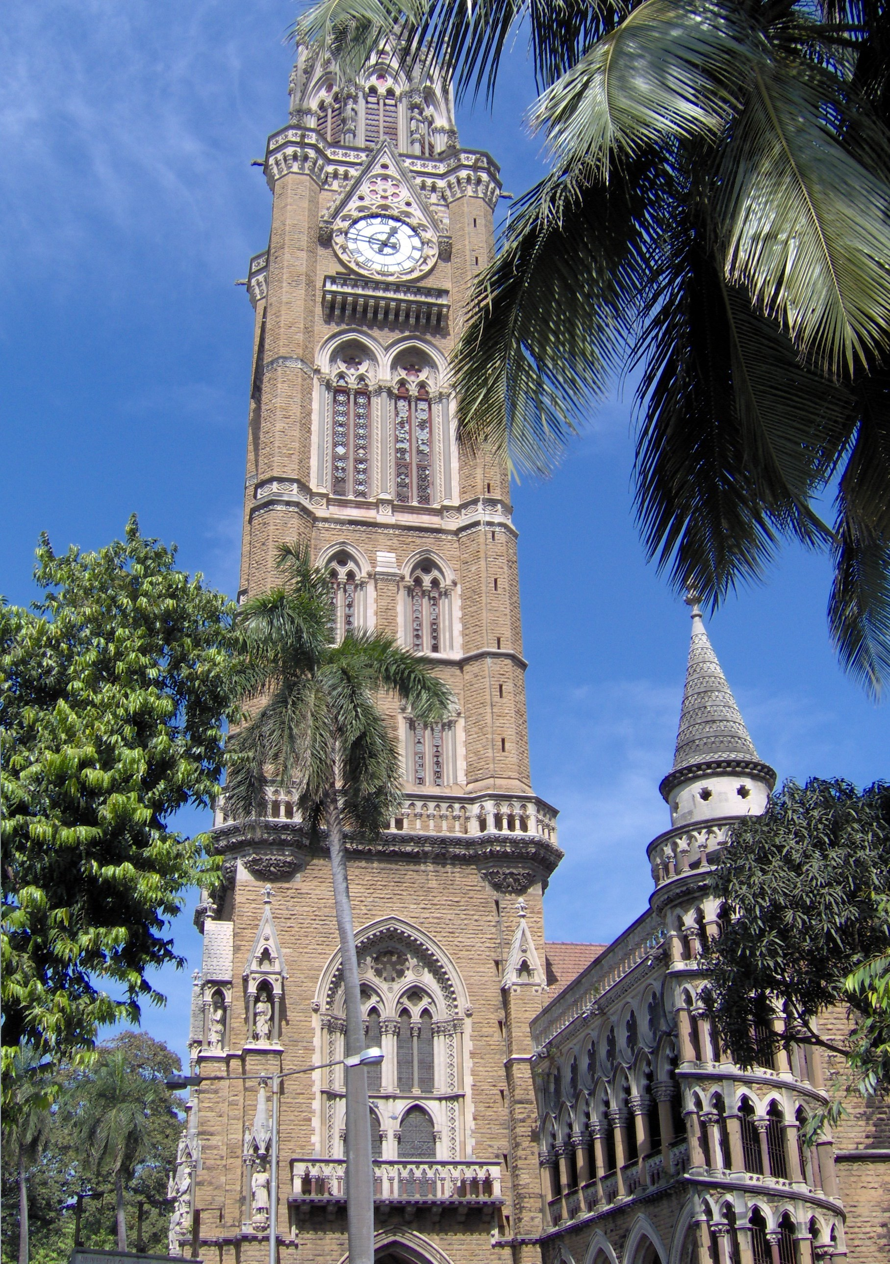 Some grounds at the University of Bombay, Mumbai. QuartierLatin1968 05:46, 12 December 2005 (UTC)